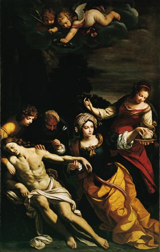 San Sebastiano aided by santa Irene